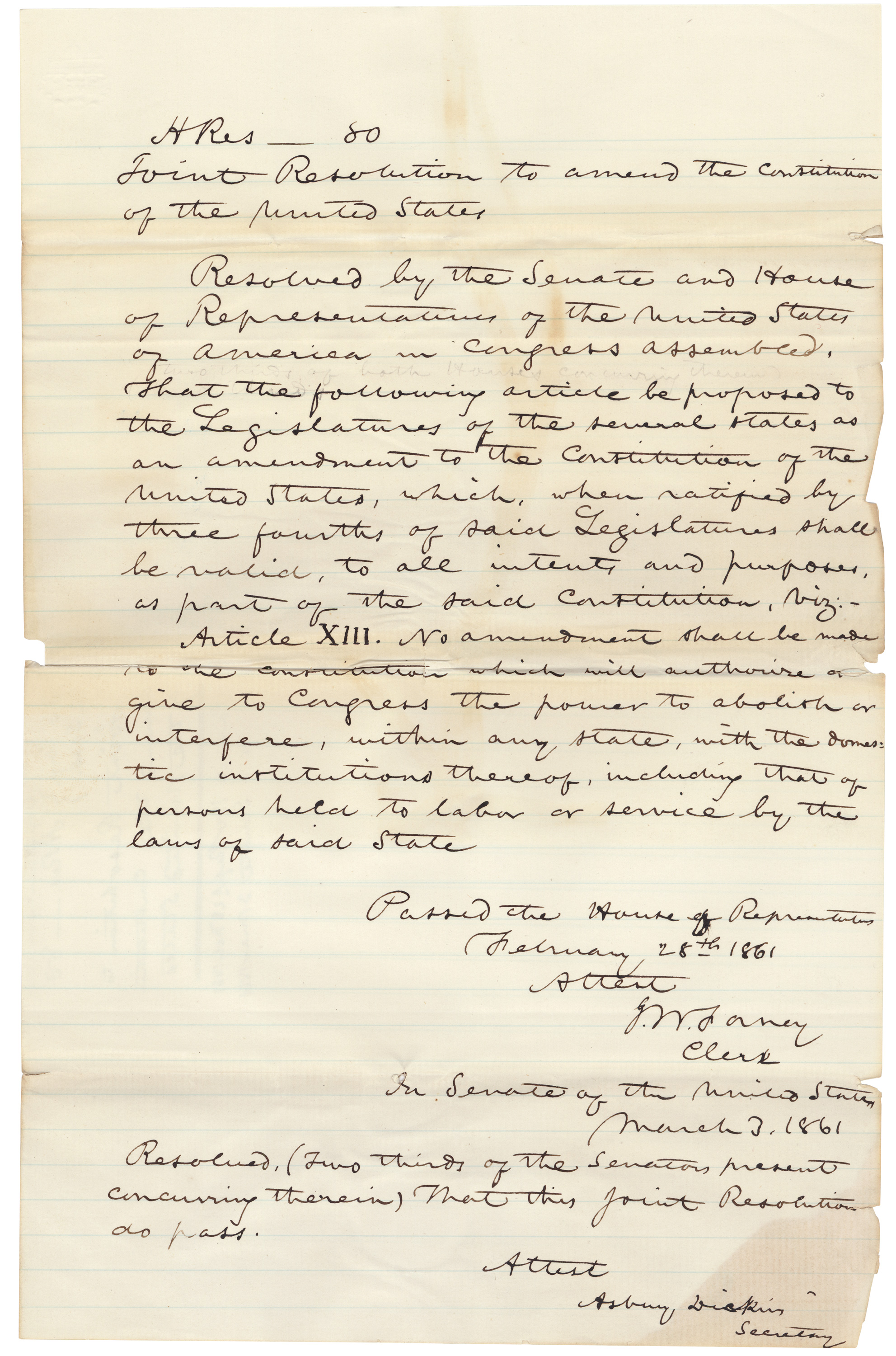 This is an image of House (Joint) Resolution No. 80, adopted by the United States House of Representatives on February 28, 1861, and by the United States Senate on March 2, 1861. Written by a committee chaired by Rep. Thomas Corwin of Ohio, the resolution sent to the states for ratification a proposed amendment to the U.S. Constitution that would have barred any federal interference with slavery in states that permitted it. Source: Records of the U.S. Senate, National Archives and Records Administration.